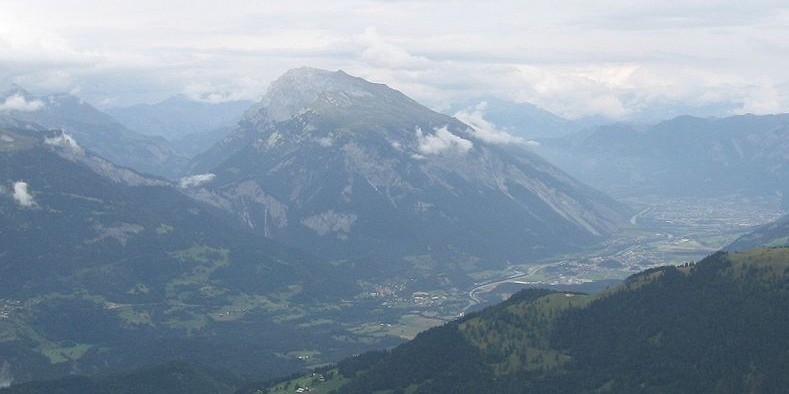 Calanda as seen from the southwest: the exceptional prominence of the mountain is an effect of the Kunkelspass to its left, with the following Tamina valley leading to the very same Rhine valley in the far background as passes in the foreground. Therefore it is possible to hike around the whole massive far longer without snow than other mountains of its height.